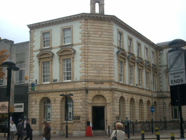 The Lloyds TSB building in Aylesbury, Buckinghamshire